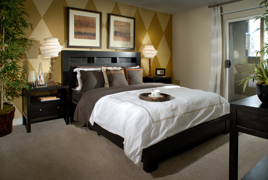 A bedroom in an AIMCO apartment home